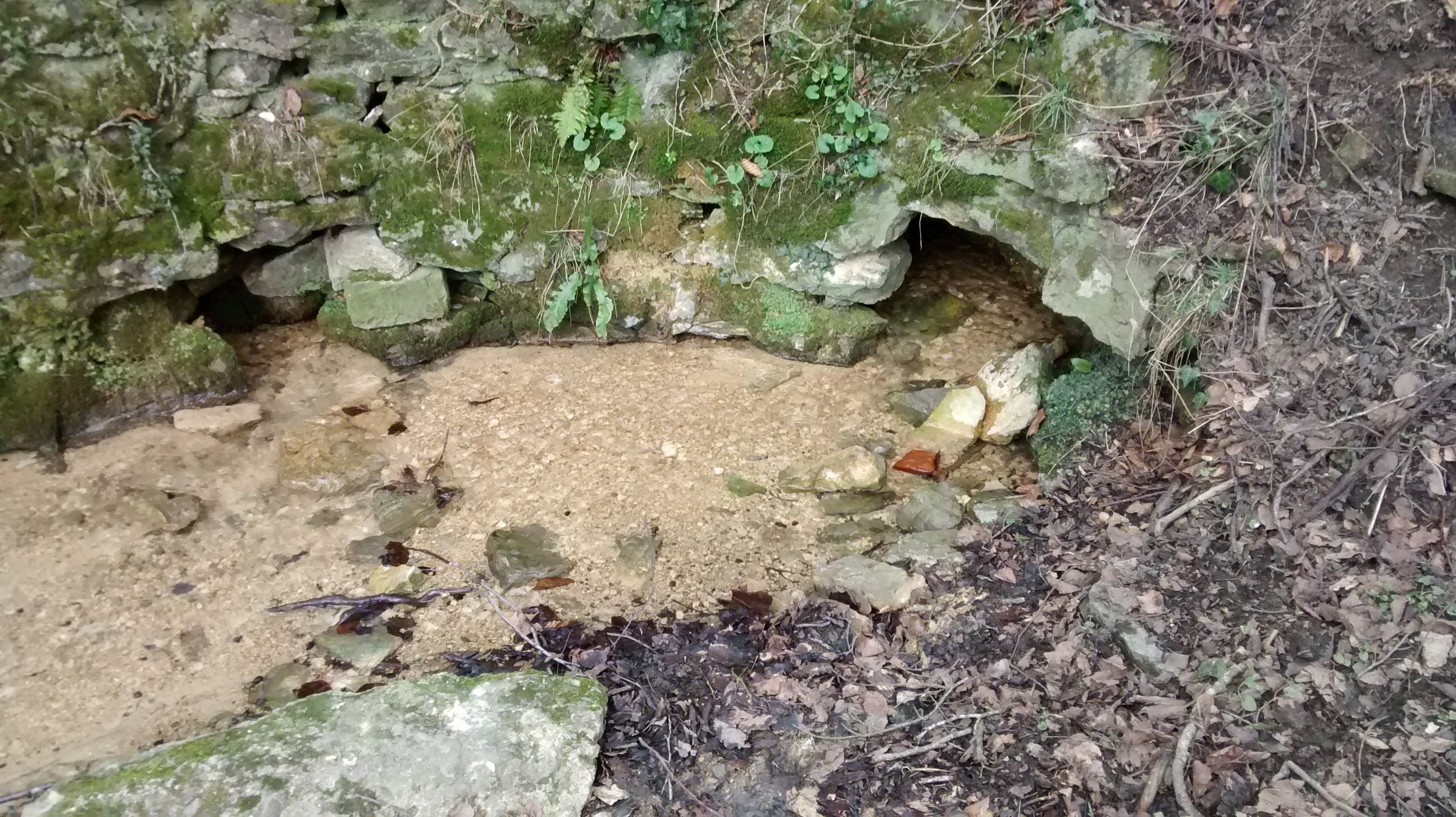 Point at which water emerges from underground at Seven Sources